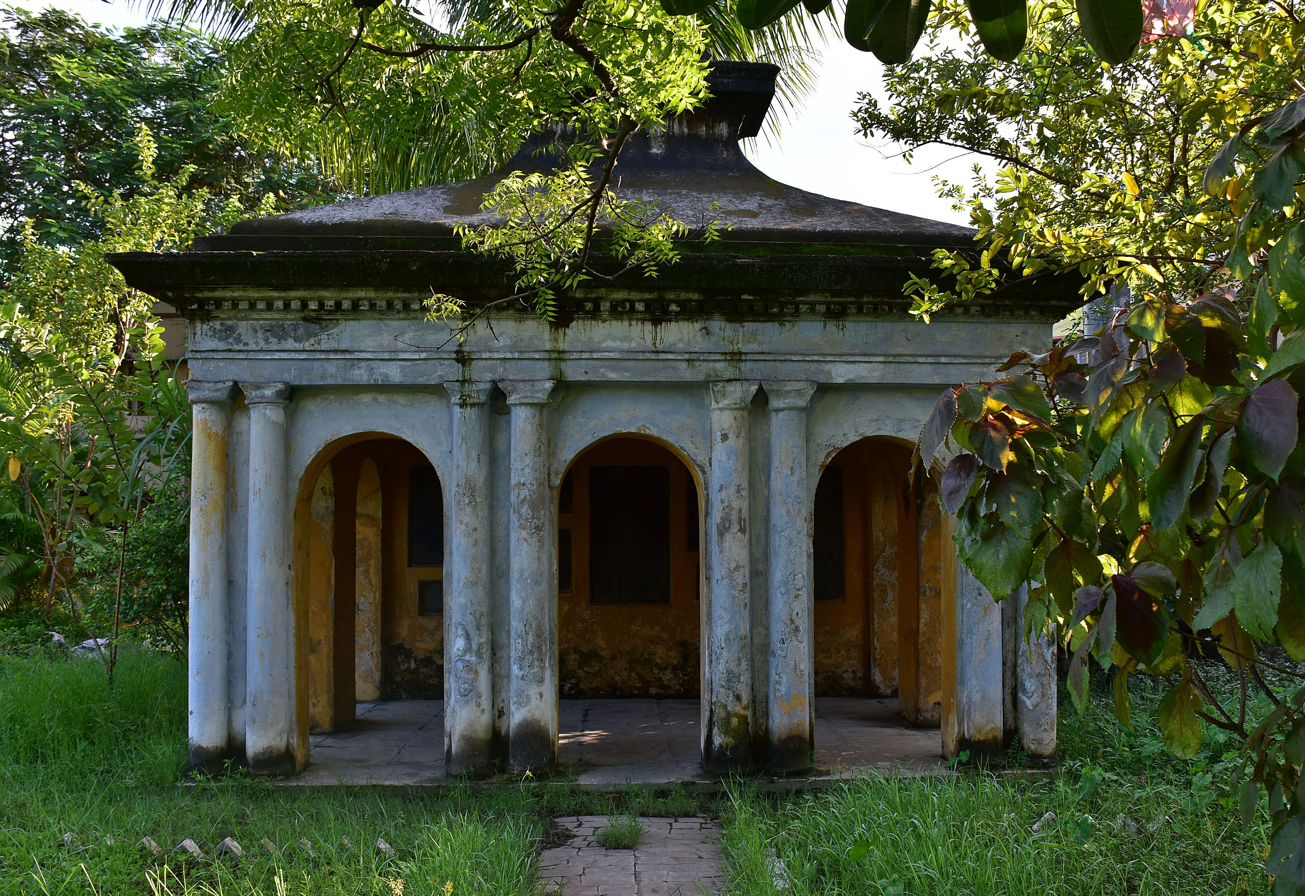 i) Danish Cemetery ii) All ancient structures, all tombs stone monument remains and inscriptions within the area enclosed by the said walls